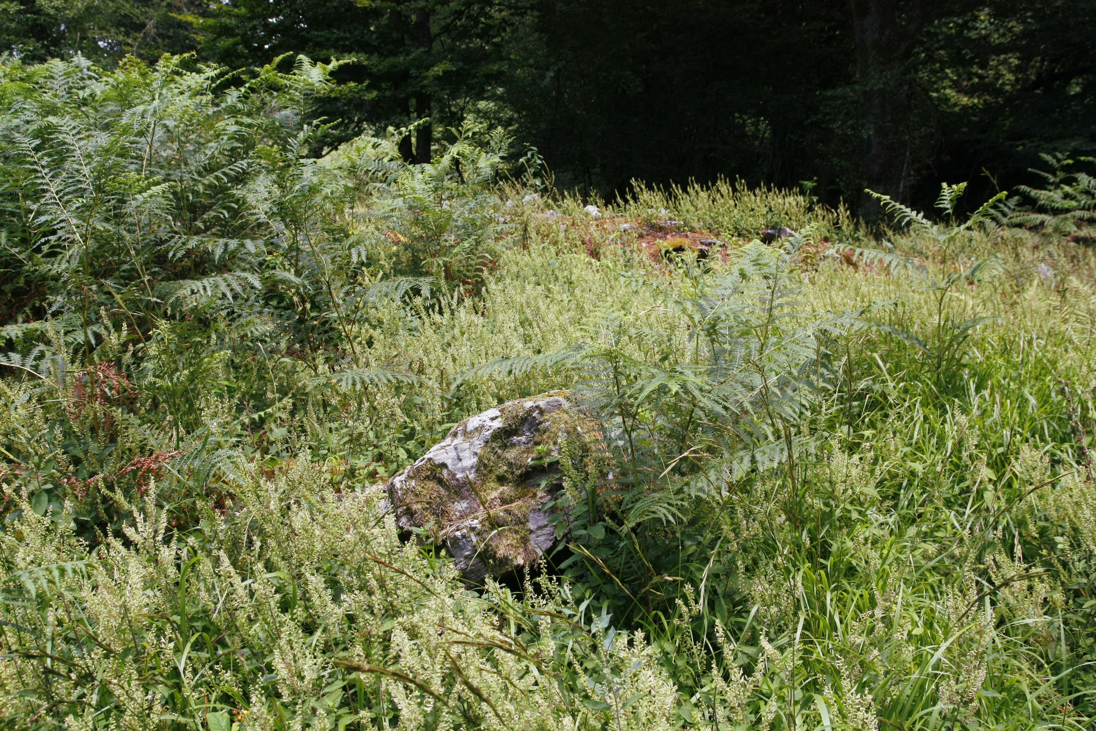 Maramendi North dolmen